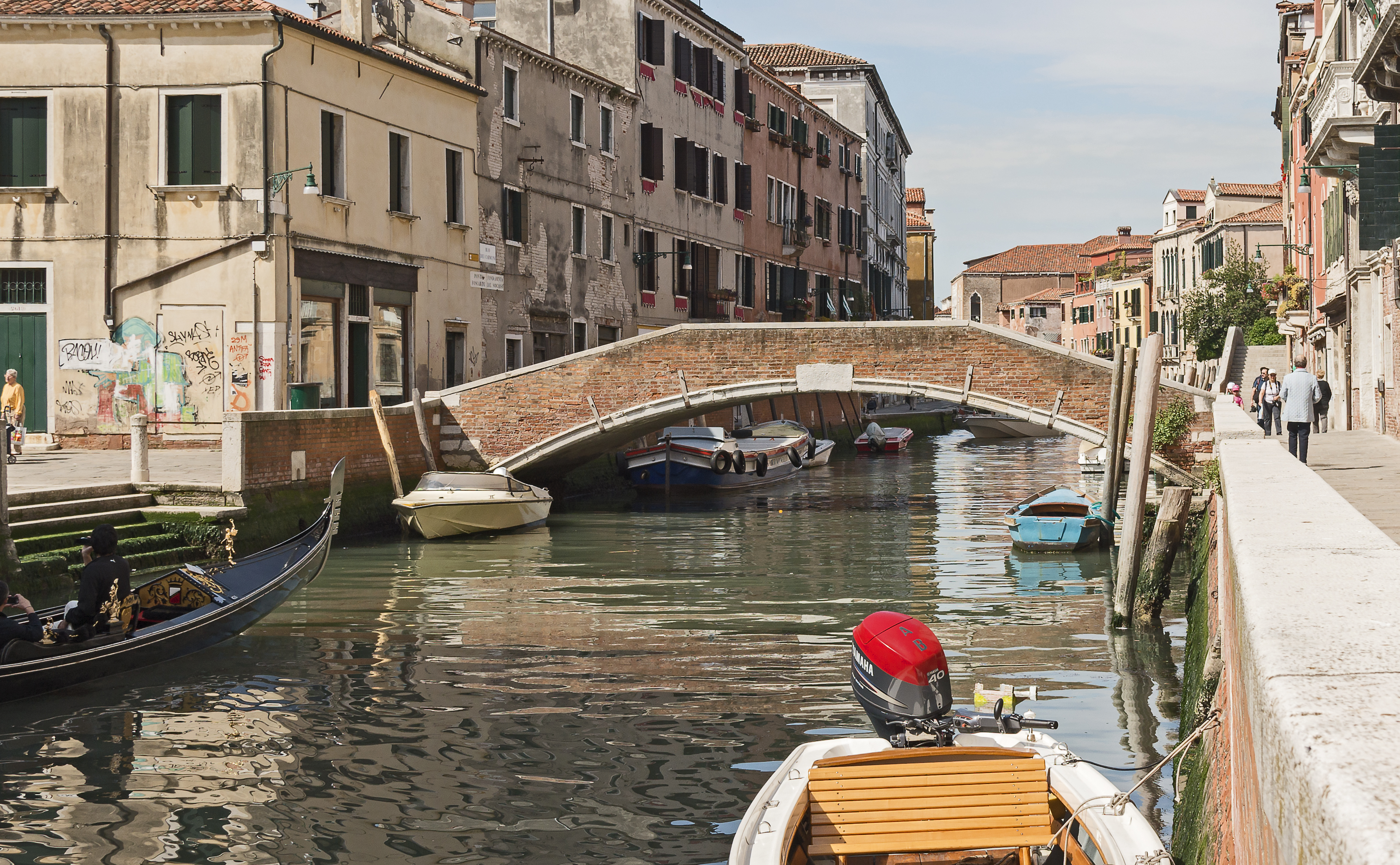 Ponte Foscarini Boundary between the rios of Santa Margarita and dei Carmini - Venice